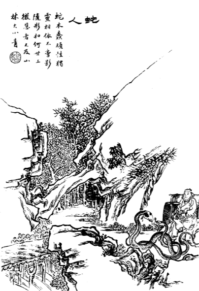 19th-century illustration of a scene from the short story "The Snake Man" collected in Strange Tales from a Chinese Studio (1740).